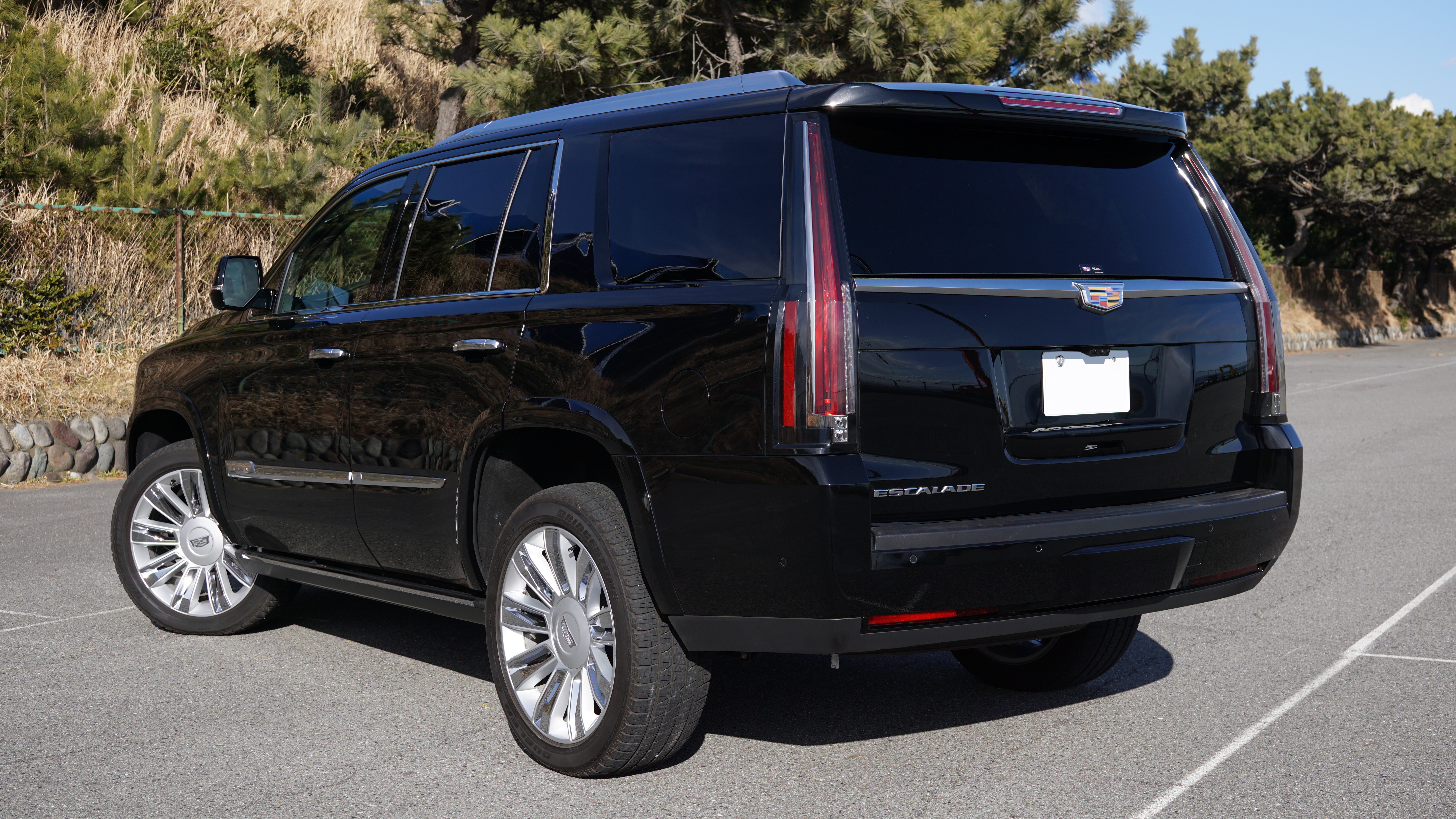 Rear view of the Cadillac Escalade Platinum GMT K2XL.